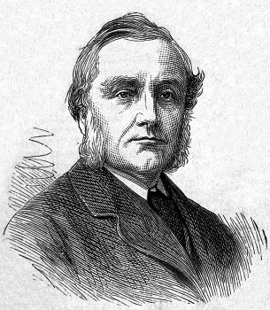 Robert Spencer Dyer Lyons. Wood engraving.